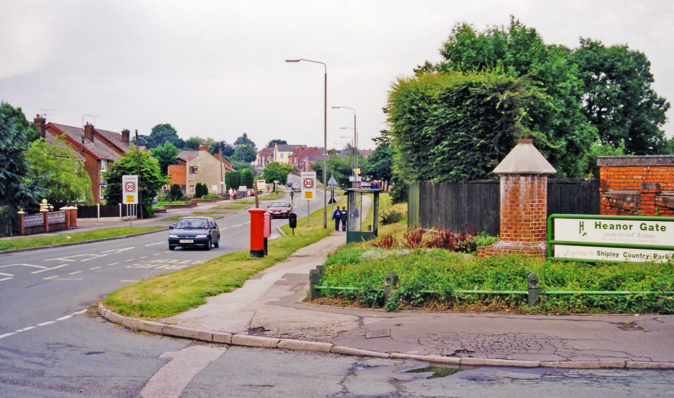 Site of Heanor LNE station. View NE On A608 at Heanor Gate. The station had been on the right: terminus of the ex-GNR branch from Ilkeston, closed to passengers 4/12/39, to goods 7/10/63.Heanor LNE station